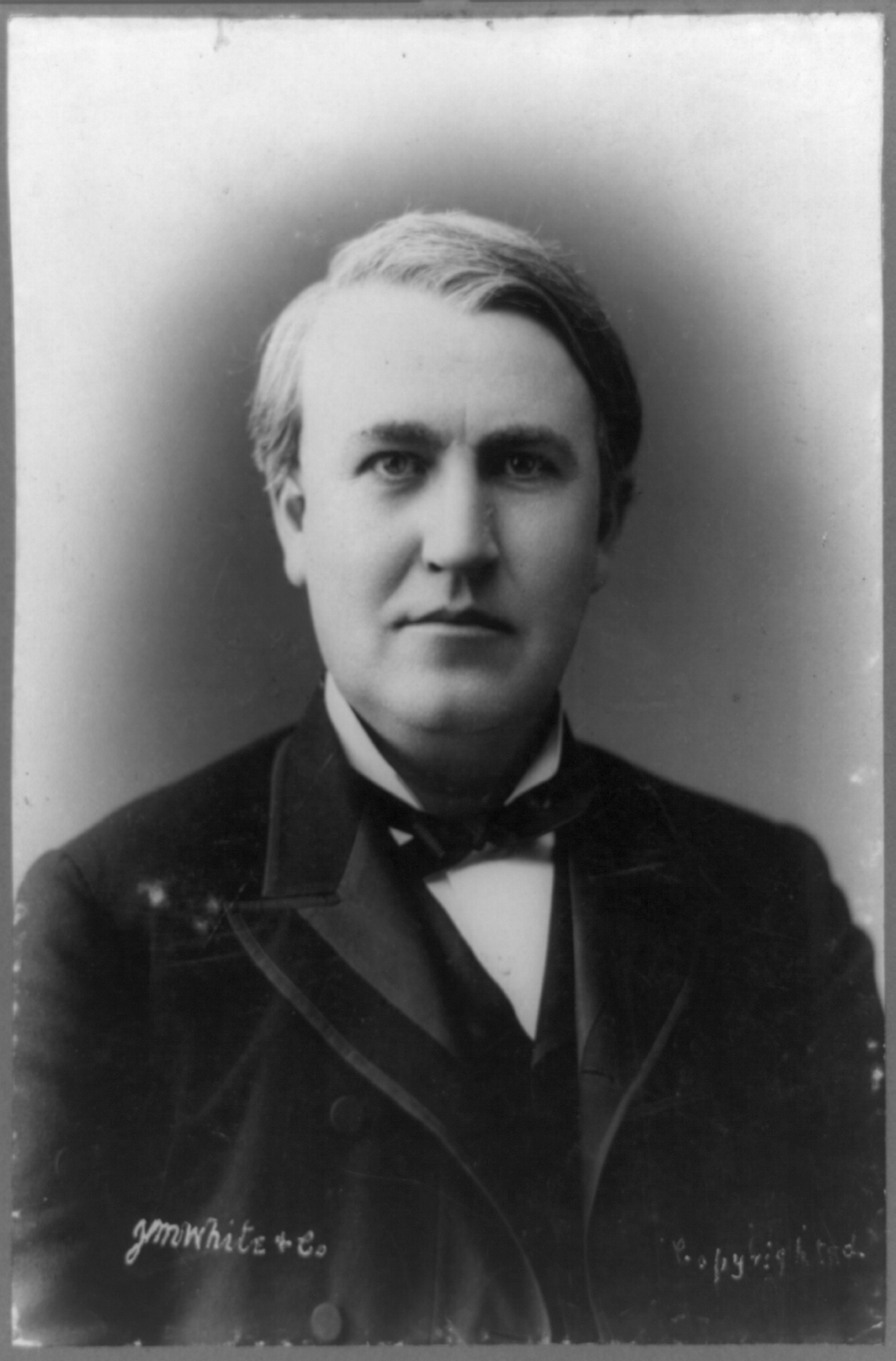 Thomas Edison, half-length portrait, facing front